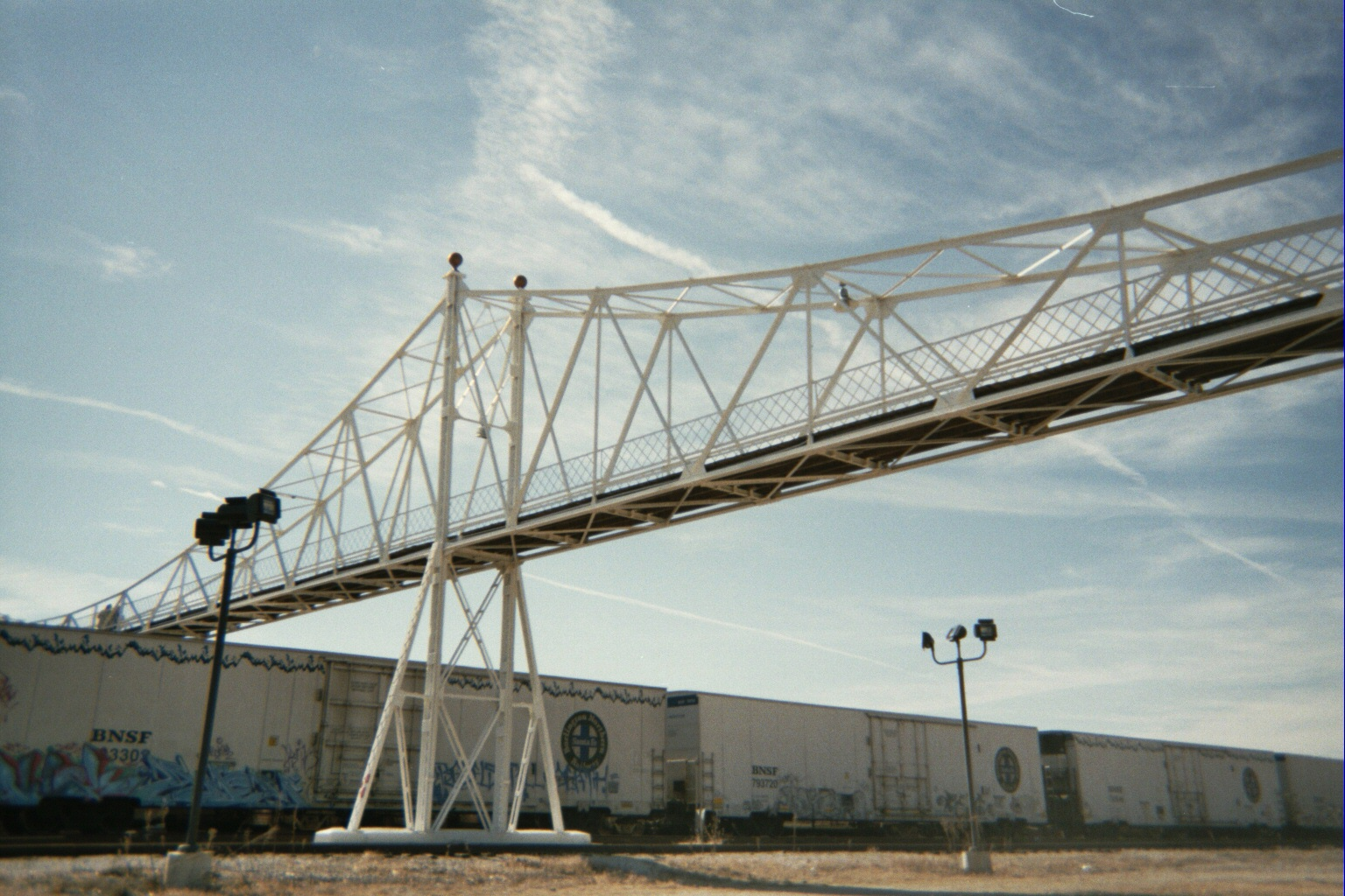 Jefferson Avenue Footbridge, on the NRHP since 2003 in Springfield, Missouri